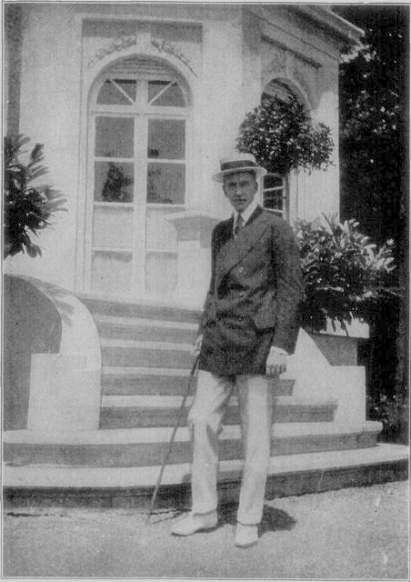 Brand Whitlock